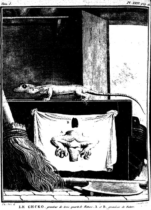 The Gecko, in Bernard Germain de Lacépède's continuation of the Comte de Buffon's Histoire Naturelle, volume XXXVII (or Reptiles volume I), Histoire générale et particulière des Quadrupèdes ovipares", 1788